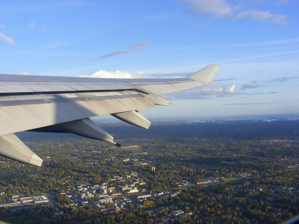 Korso in Vantaa, Finland from air